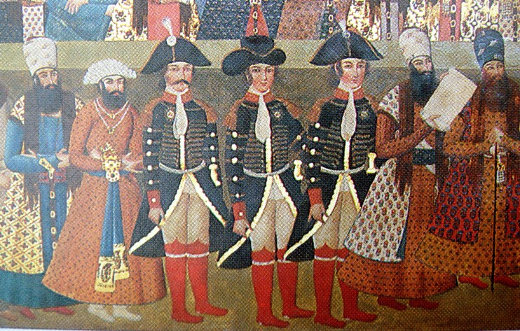 Malcom_at_the_court_of_Fath_Ali_Shah_in_1808